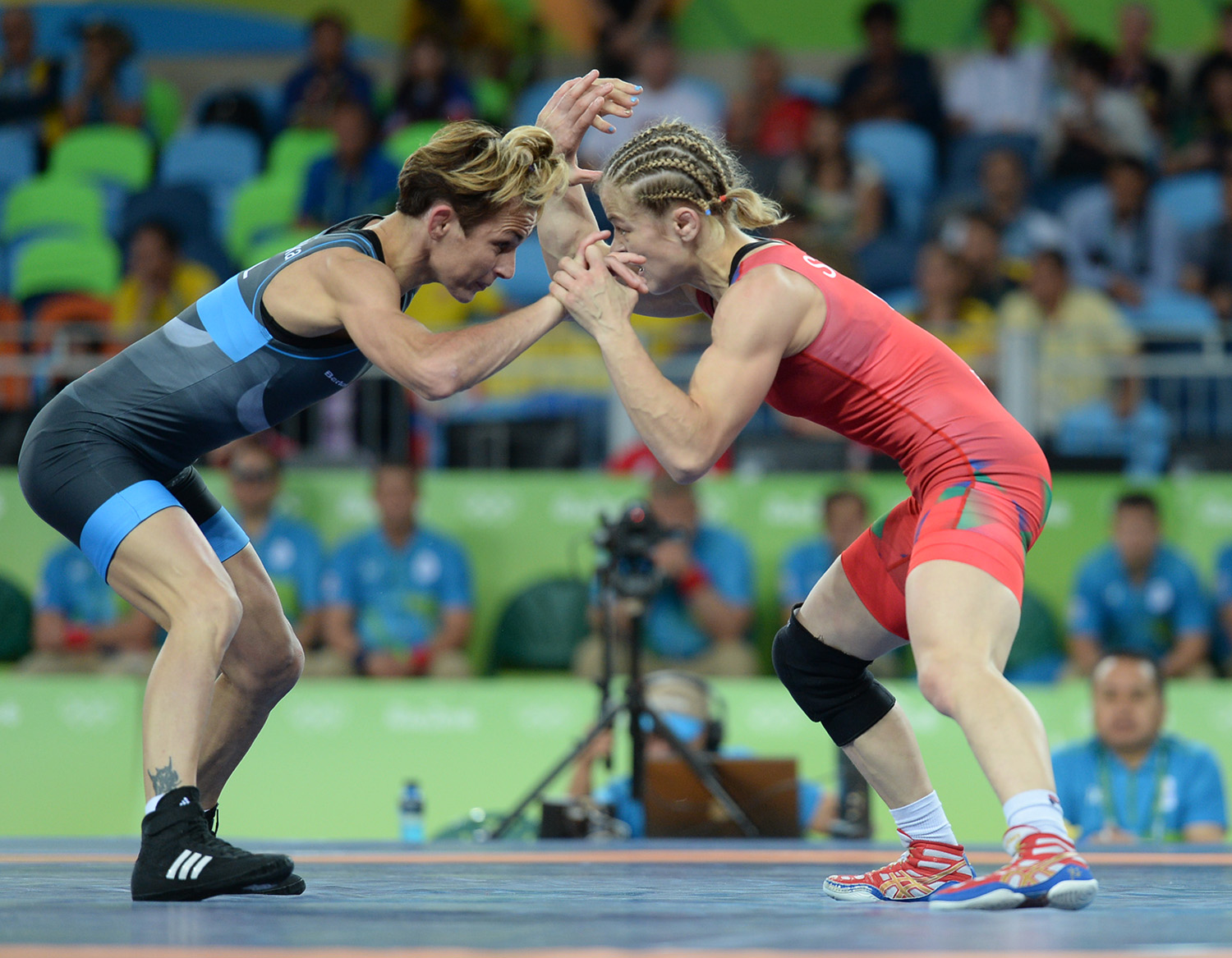 Wrestling at the 2016 Summer Olympics, Stadnik vs Matkowska